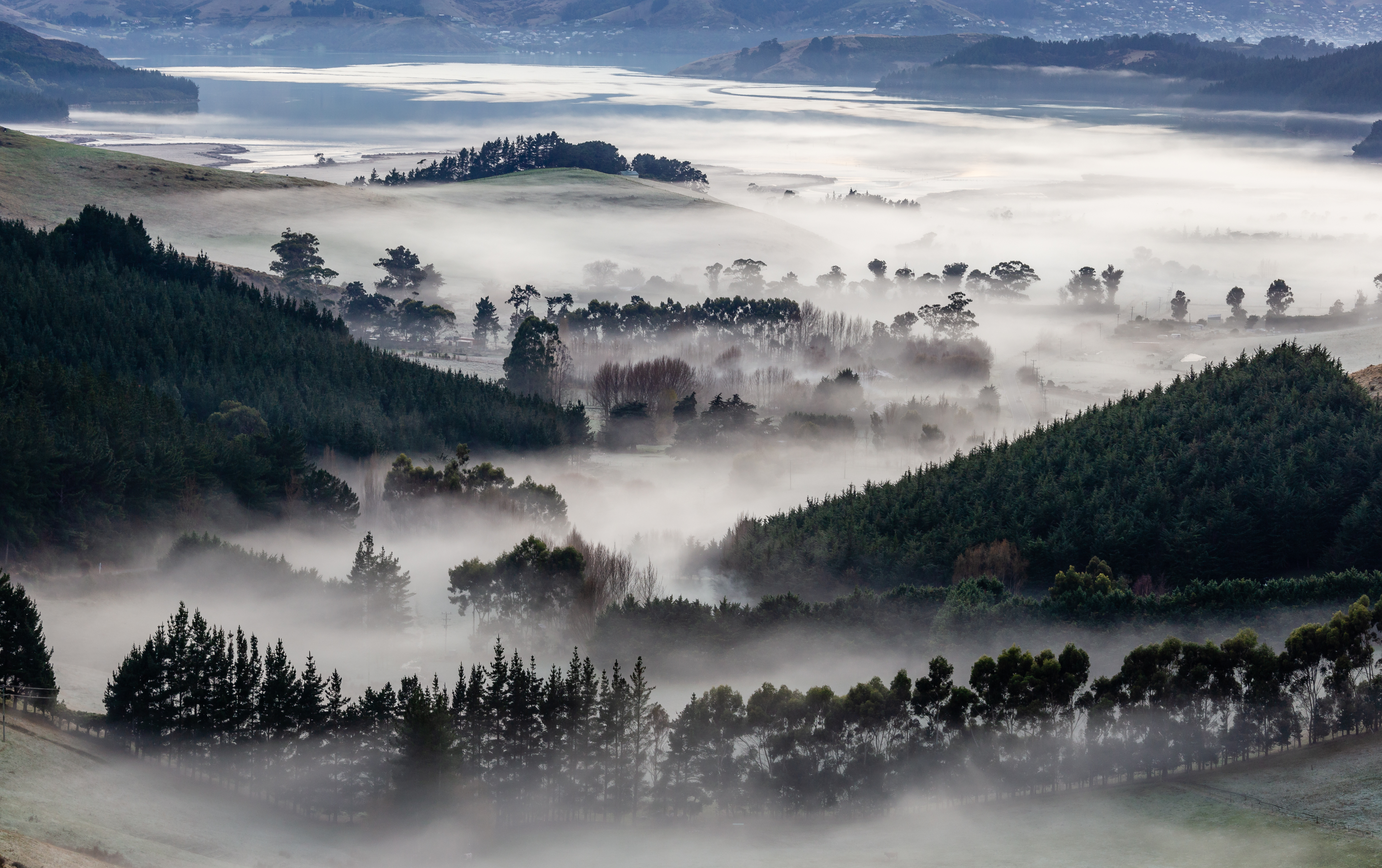 View from McQueen Pass towards Lyttelton Harbour, Canterbury, New Zealand